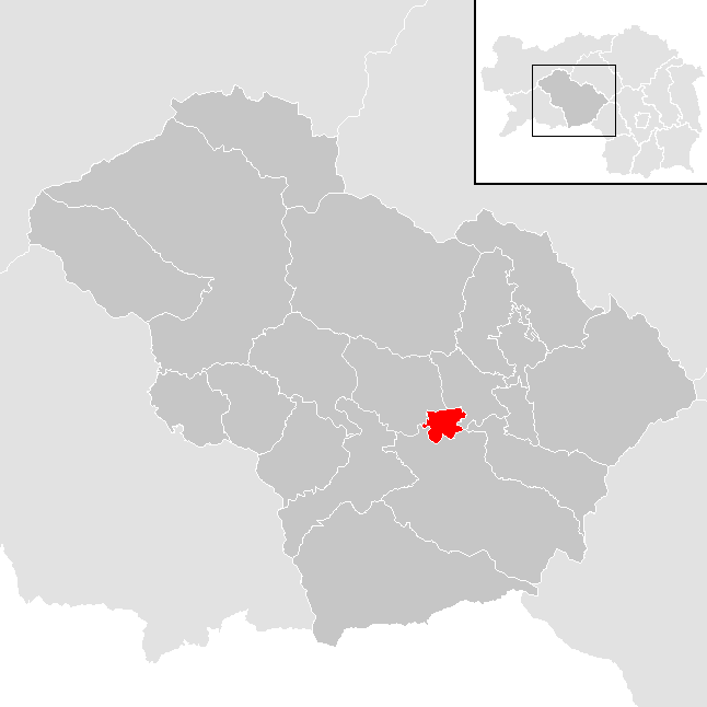 district Murtal in Styria, Austria